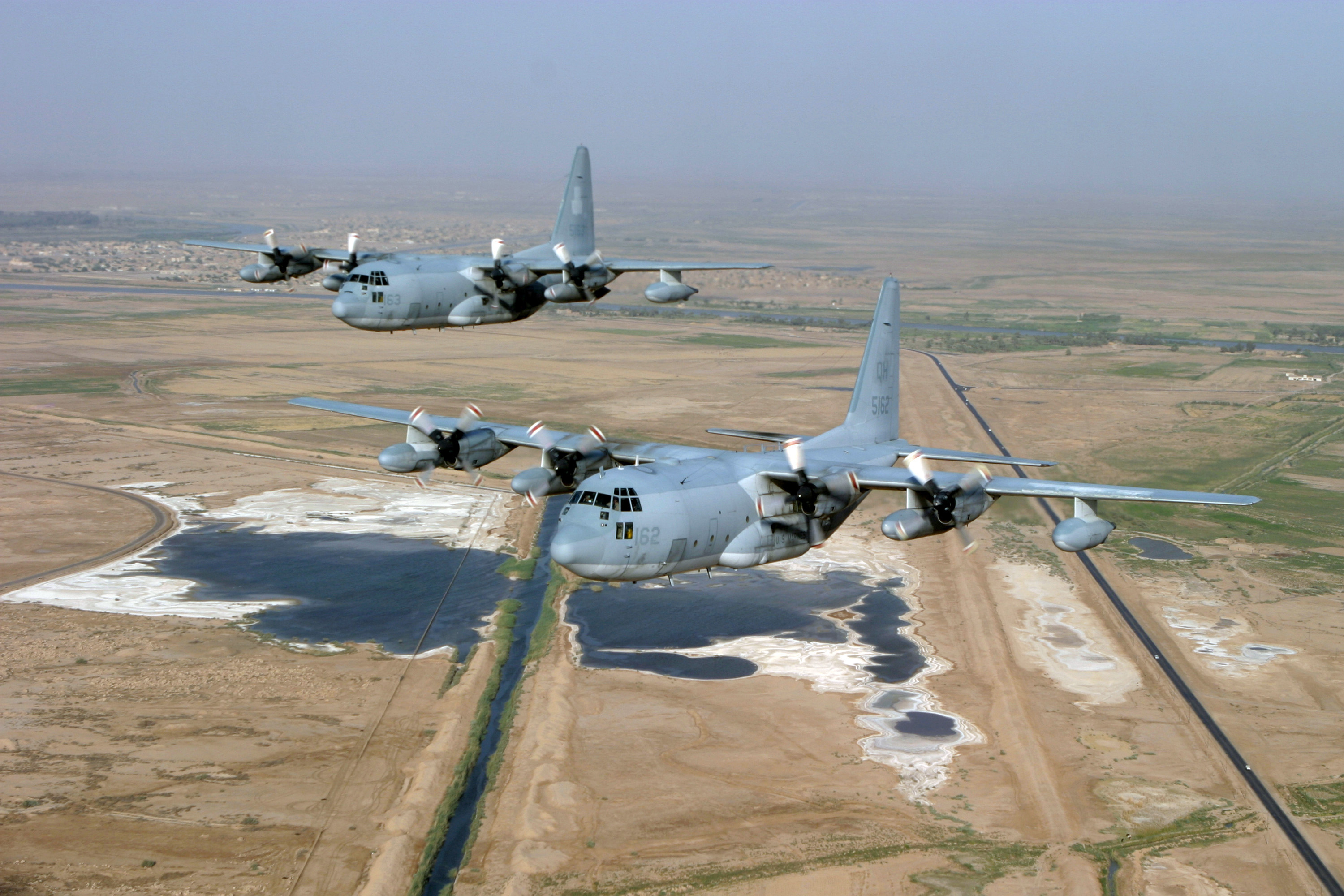 Two U.S. Marine Corps Lockheed KC-130T Hercules (BuNo 165162, 165163) assigned to Marine Aerial Refueler Transport Squadron VMGR-234 in flight over central Iraq in 2003.